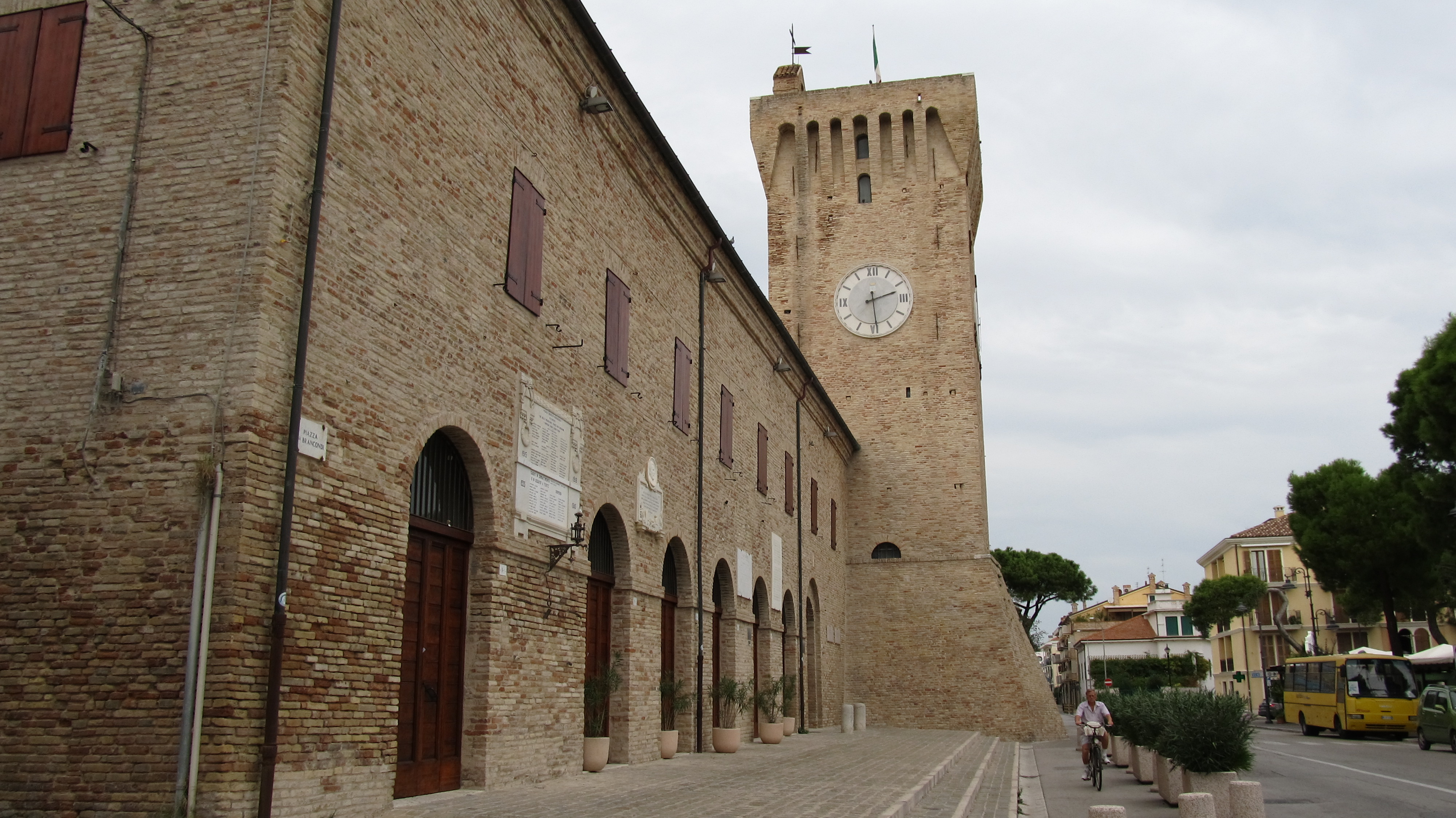 Swabian Castle in Porto Recanati